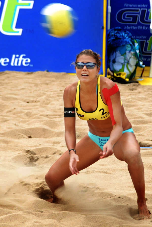 Beach volley Brazilian player Leila Barros in 2007